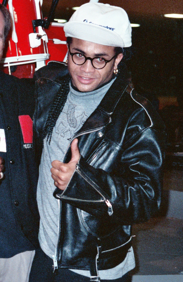 Rob Pilatus at the 1990 Grammy Awards - rehearsal - February, 1990 - Permission granted to copy, publish or post but please credit "photo by Alan Light" if you can